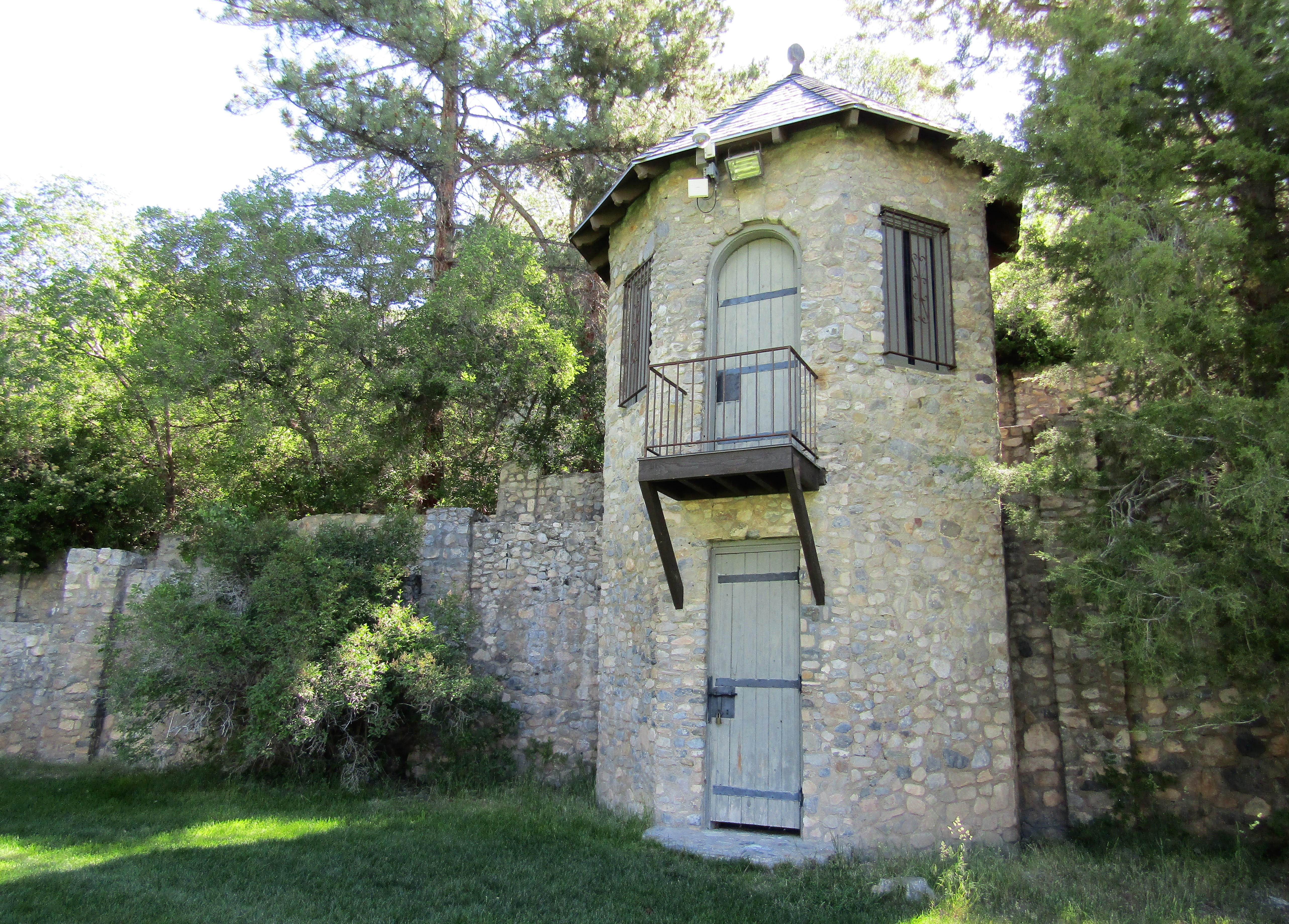 Tower of the Recreation Center for the Utah State Hospital.